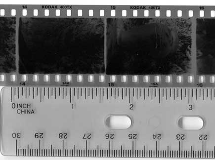 135mm film size